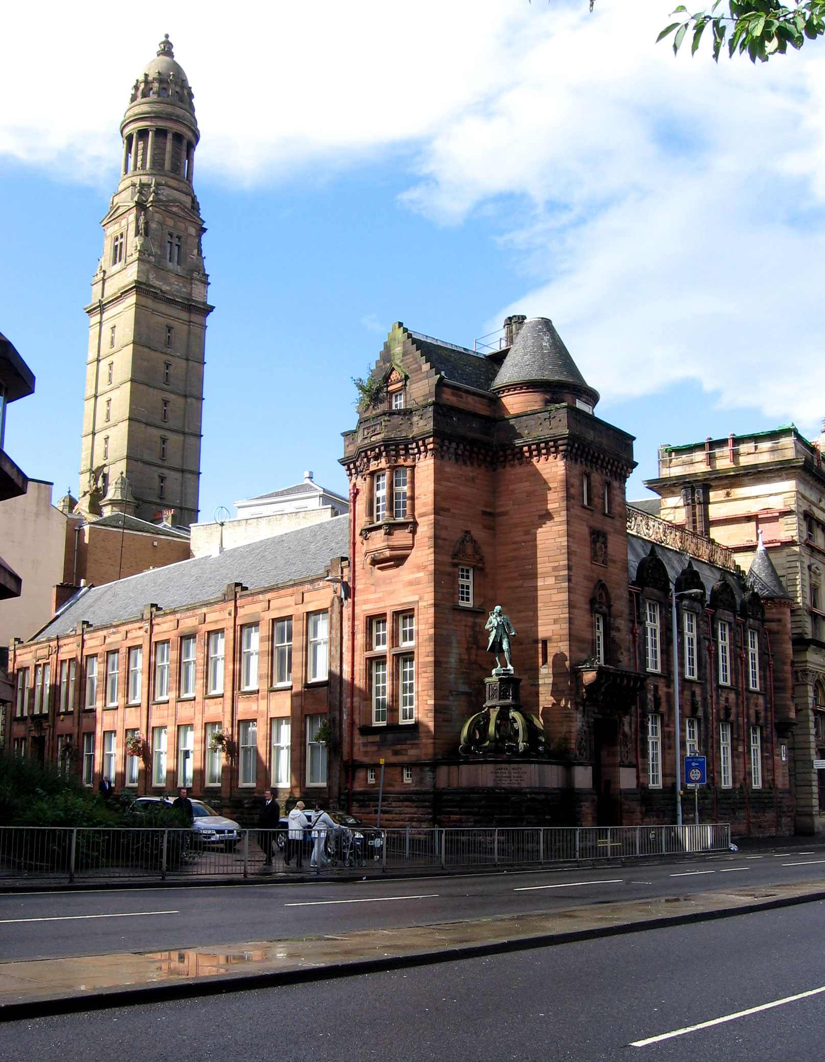 The original James Watt Memorial College building in Greenock Scotland, forerunner of the James Watt College.